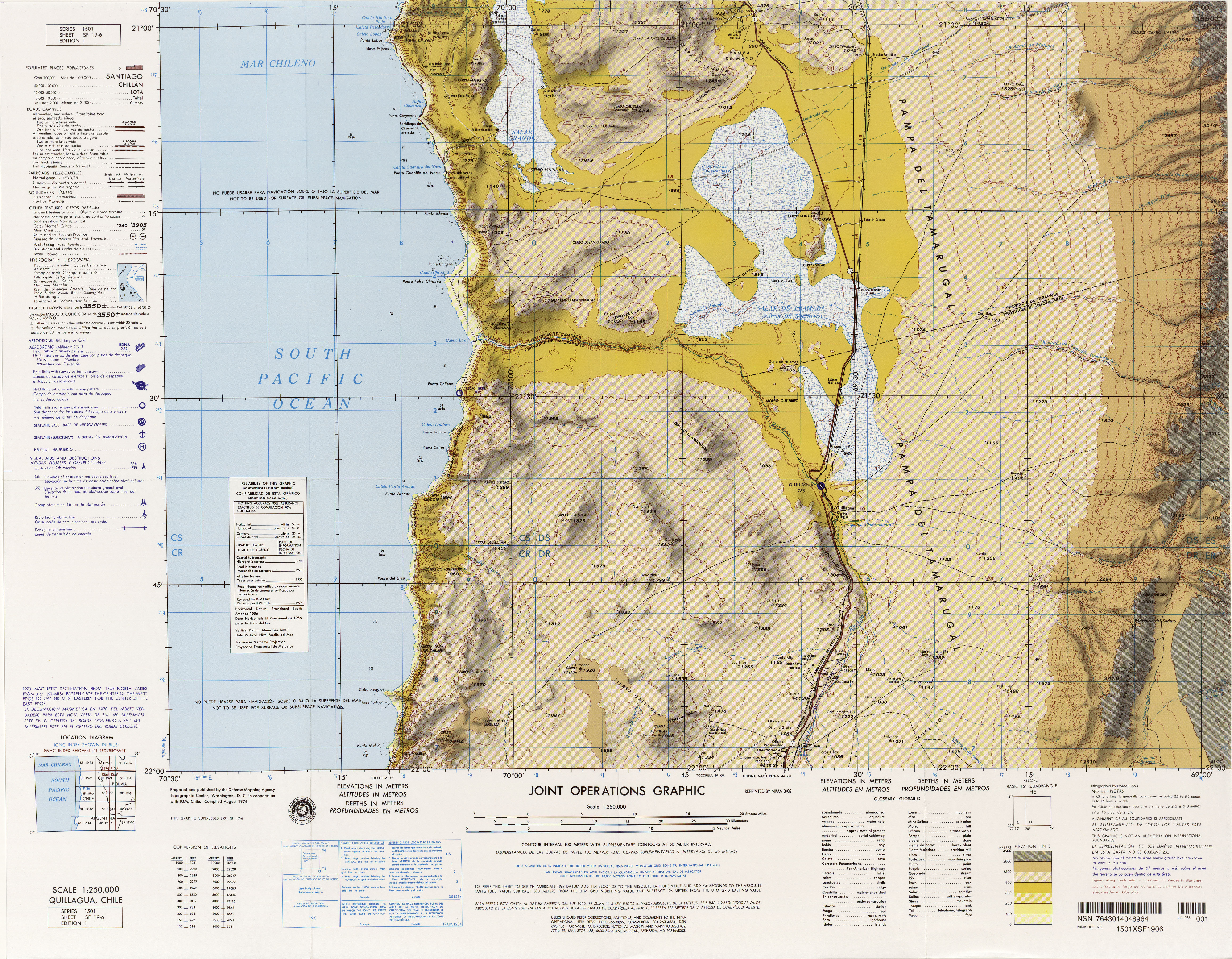 Quillagua, Pampa del Tamarugal